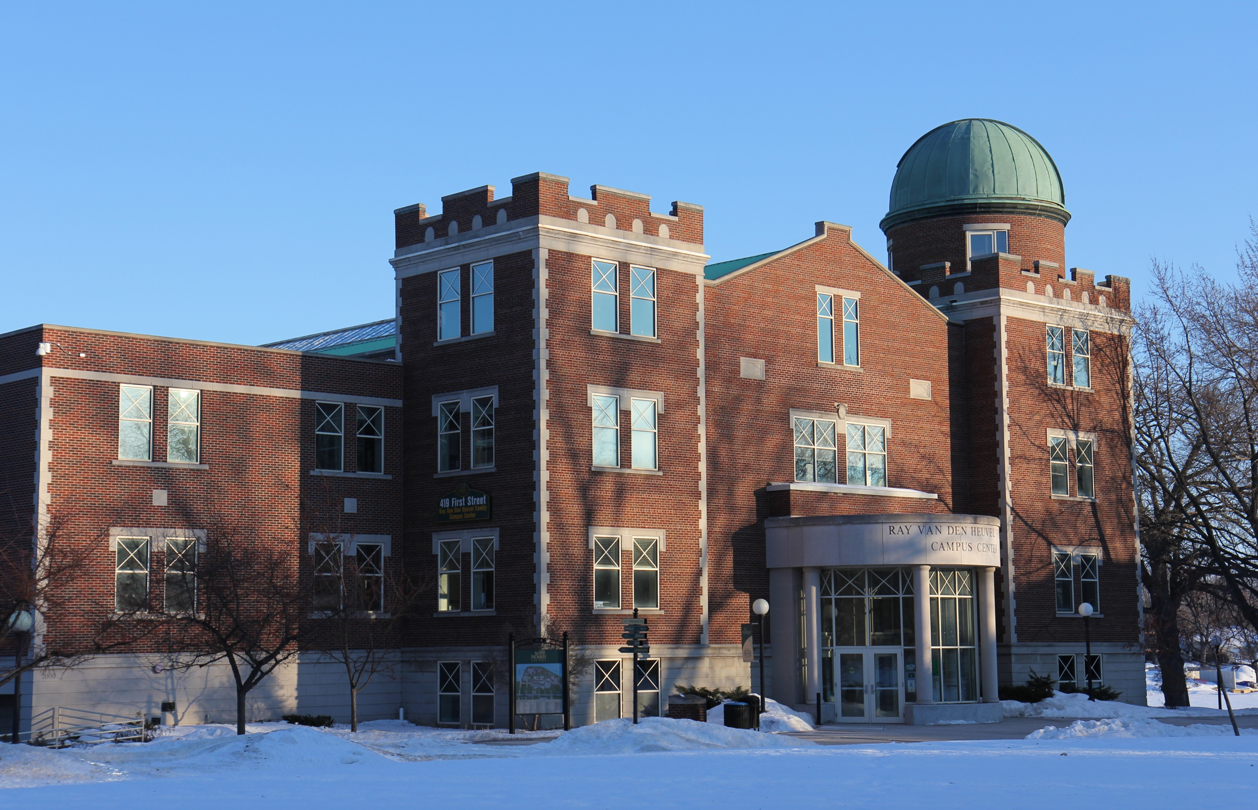 The Van den Heuvel campus center at St. Norbert College in DePere, Wisconsin.